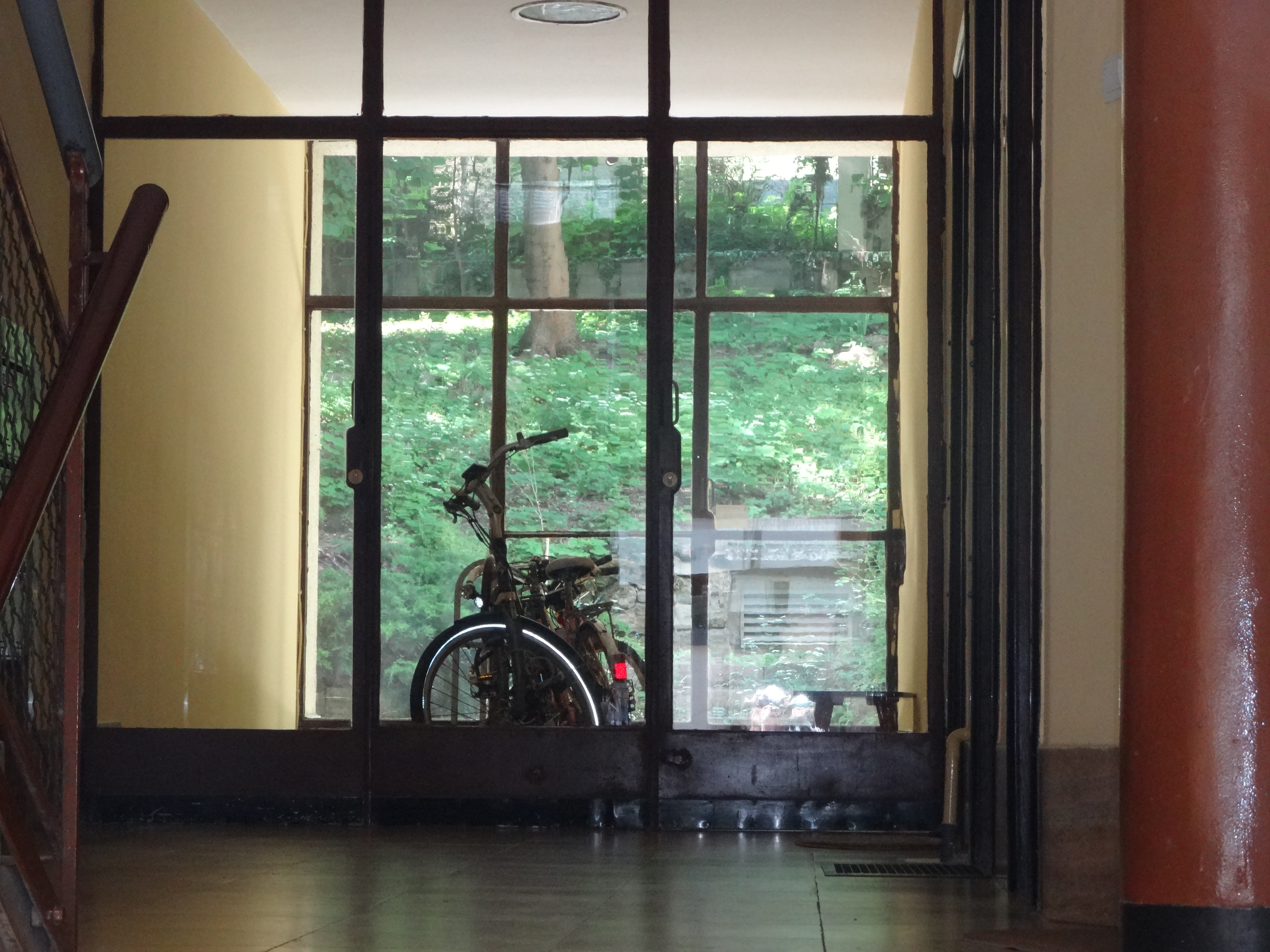 Tschogl building, Varosmajor utca 50b, Budapest, view through the front entrance through to the garden